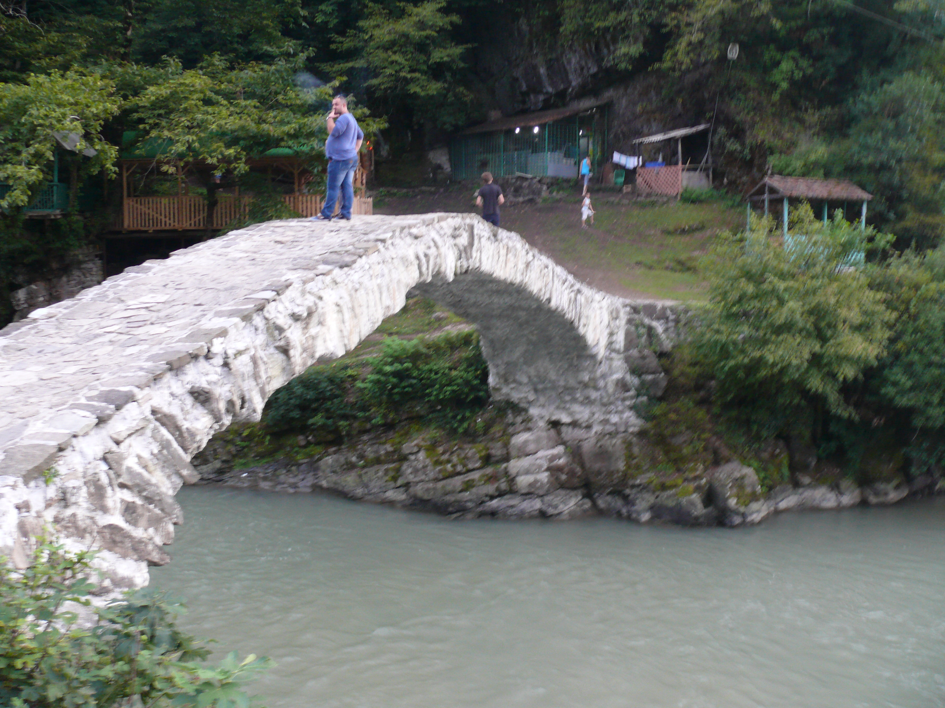 Makhuntseti bridge